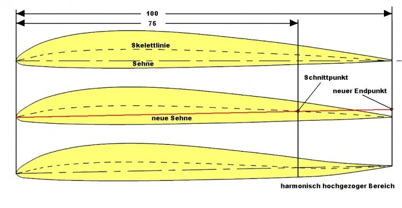 Homemade reflexed airfoils